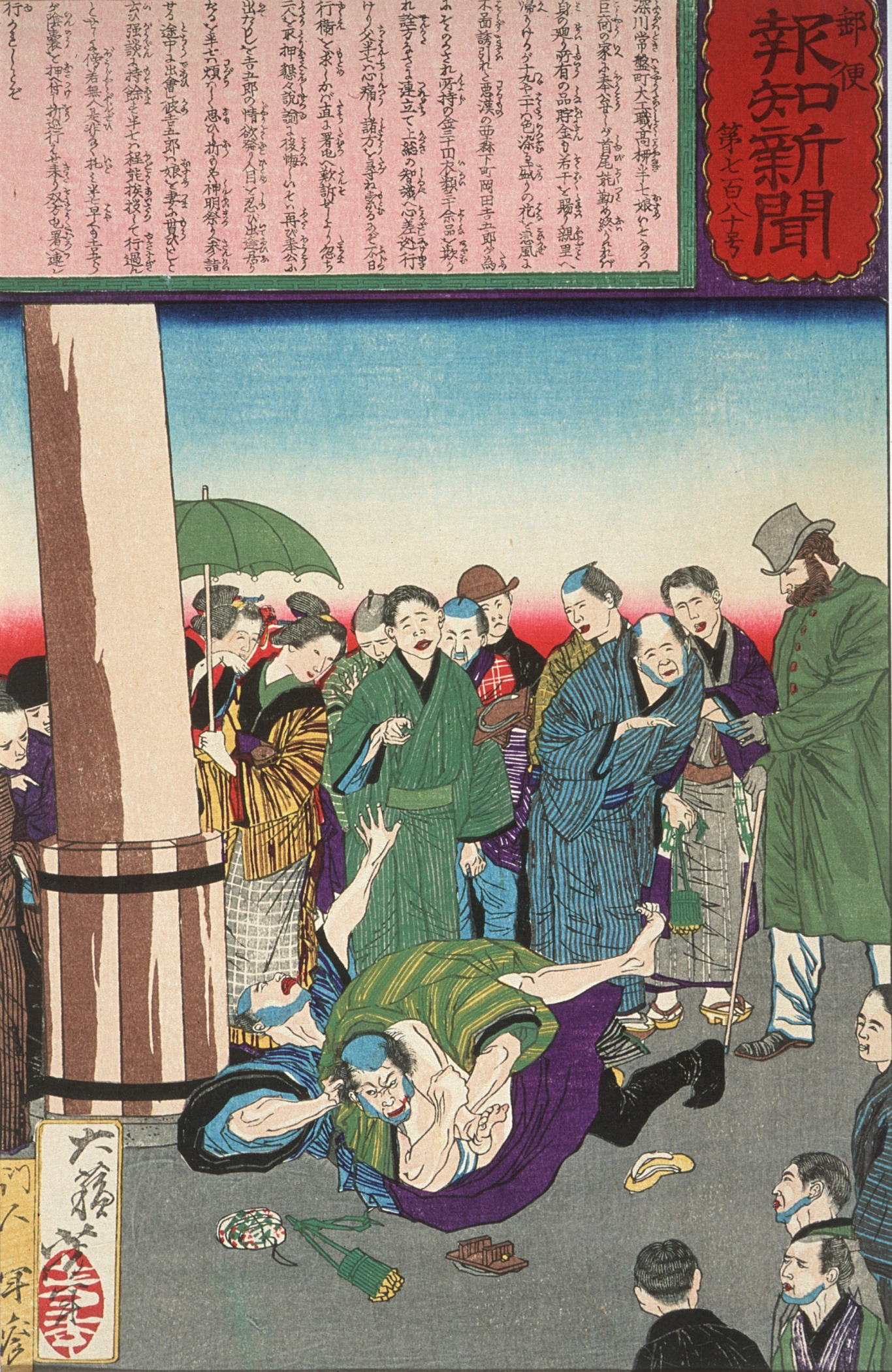 Japan, circa 1875 Series: The Postal News, no. 780 Prints; woodcuts Color woodblock print Herbert R. Cole Collection (M.84.31.150) Japanese Art